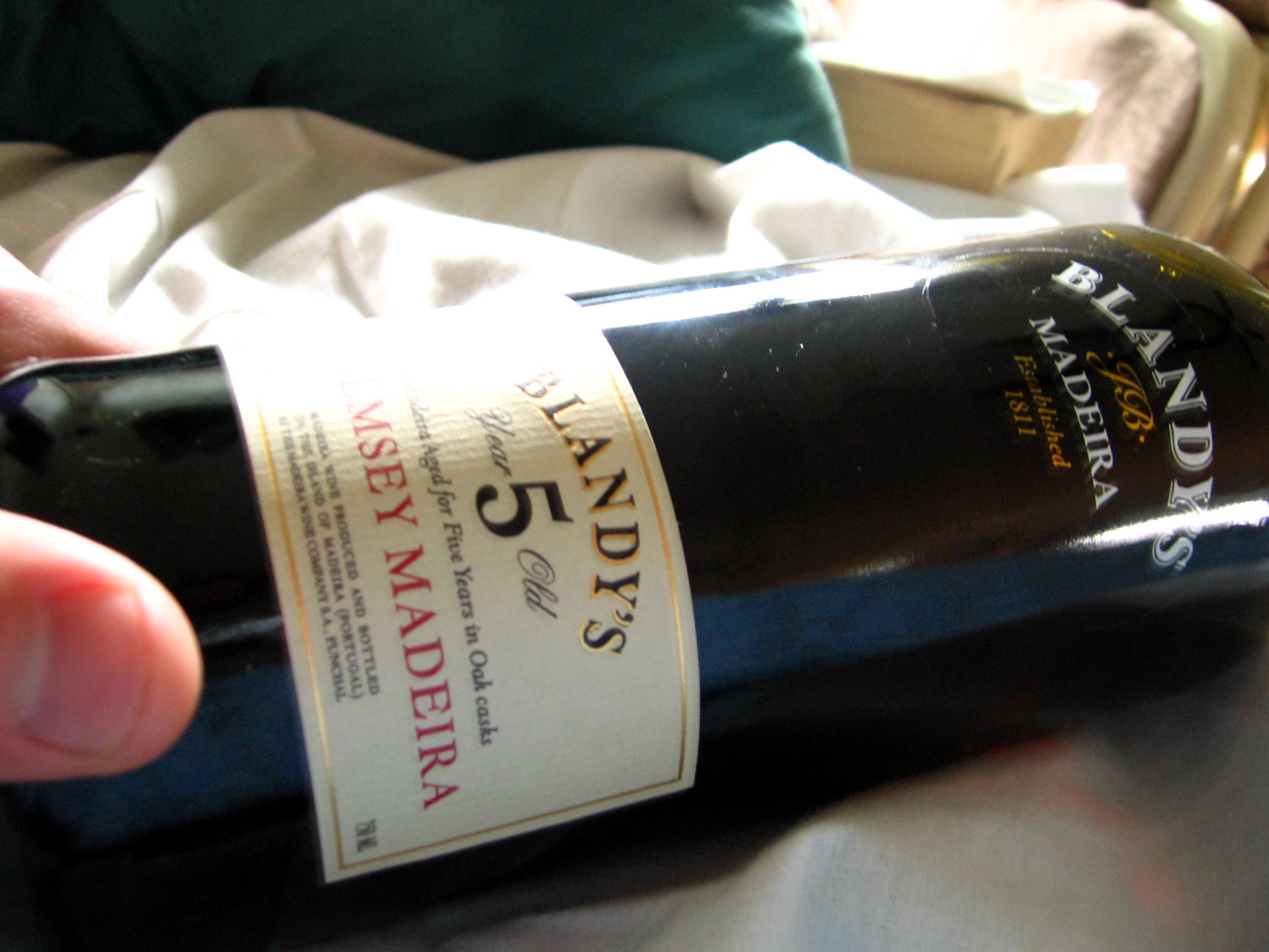 A bottle of Blandy's 5 year old Malmsey Madeira.